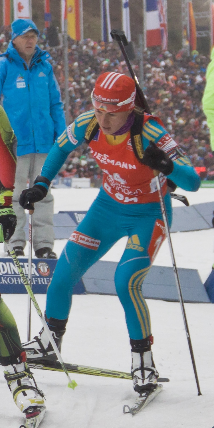 Valj Semerenko in the world cup pursuit race in Oberhof.